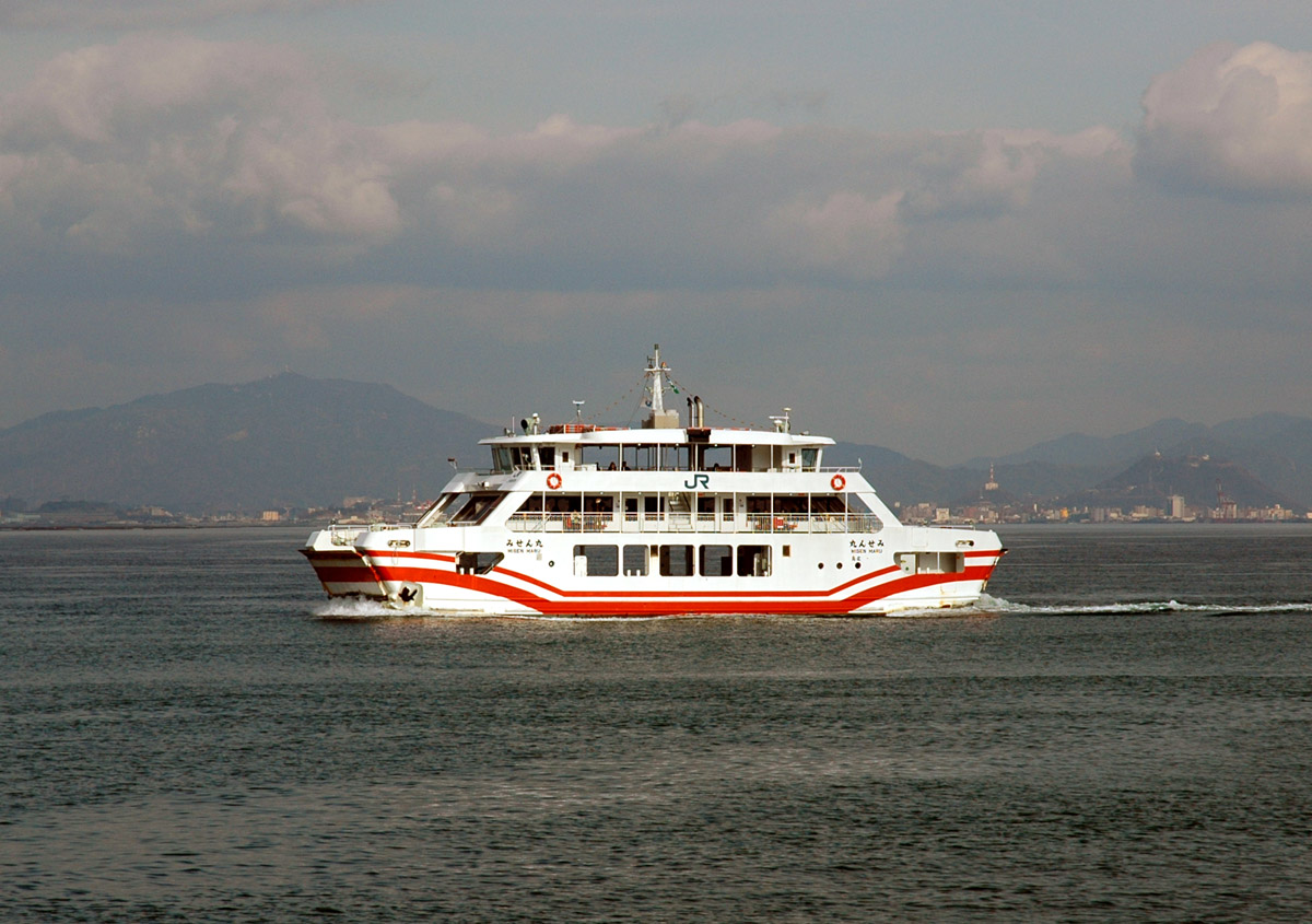 Misenmaru, one of the ferryboat operated by Japanese company "JR West Ferry"